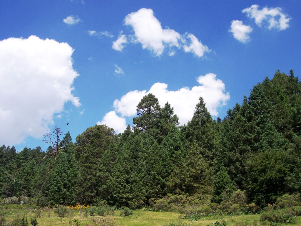 Forestal area of Santa María Magdalena Cahuacán